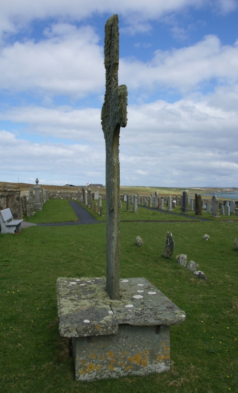 Kilnave Chapel, Islay, Argyll and Bute, Scotland. Kilnave Cross as seen from the south.